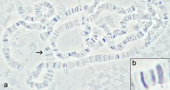 Phase-contrast image of Drosophila melanogaster polytene chromosomes. The end of the X-chromosome is marked with an arrow. Chromocentre is in the upper right corner. B shows a magnification of chromomere and interchromomere bands. Alternative b&w version from the same preparation: Image: Drosophila_polytene_chromosomes.jpg